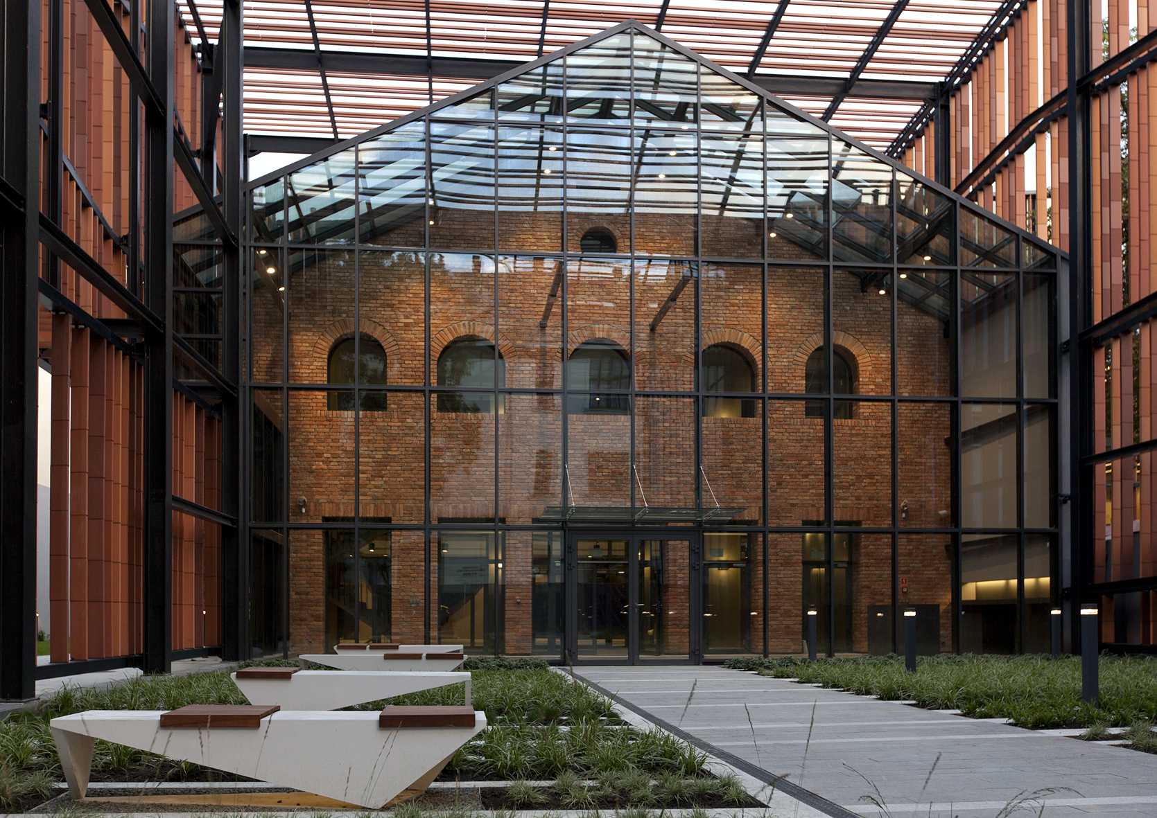 Malopolska Garden of Arts (2012) in Krakow, Poland, designed by Ingarden & Ewy Architects, mediatheque and performing arts centre managed by the Slowacki Theatre in Krakow